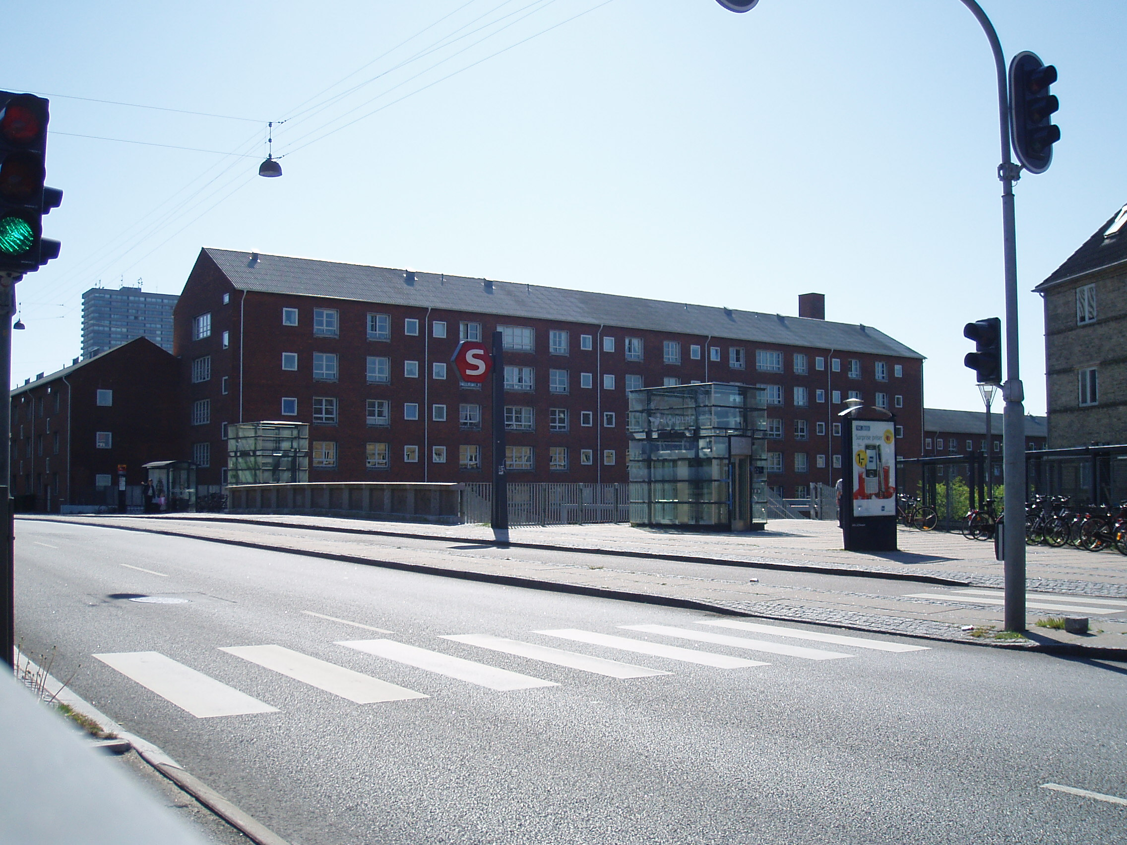 Ålholm station at street level seen in direction south east.